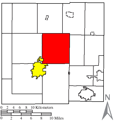 Made by the US Census and modified by myself